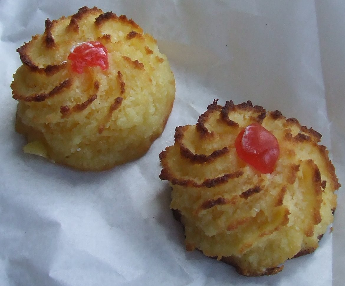 Coconut Macaroons from Acland Cakes, Acland St, St Kilda, St Kildane, Australia.